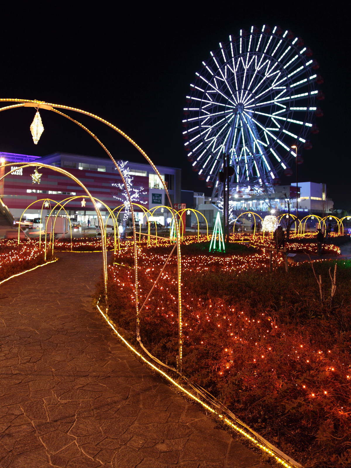 Illumination at the Kariya Highway Oasis in Kariya City, Aichi Prefecture, Japan